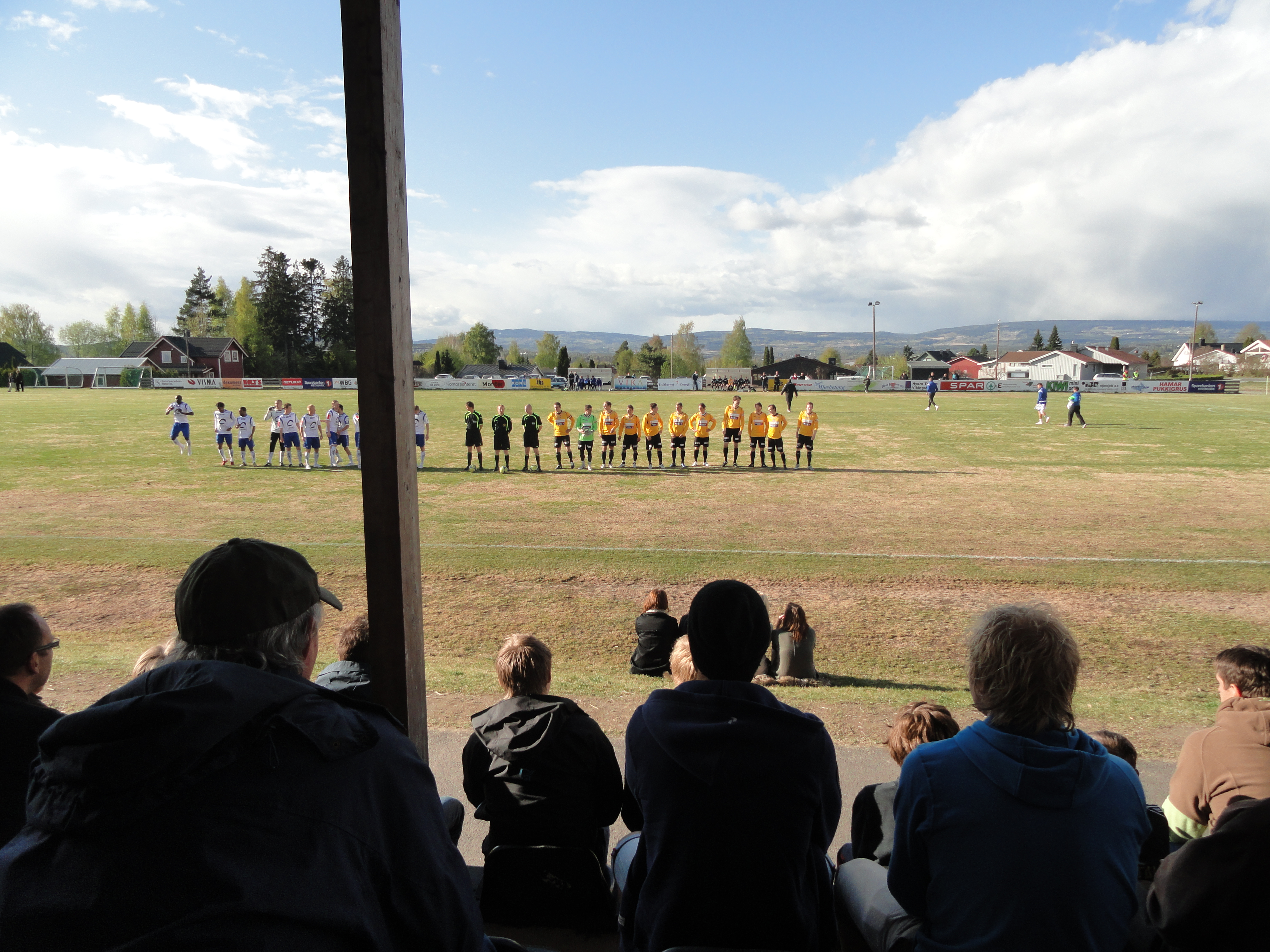 Picture in the match between Ottestad and Nybergsund Trysil 2011